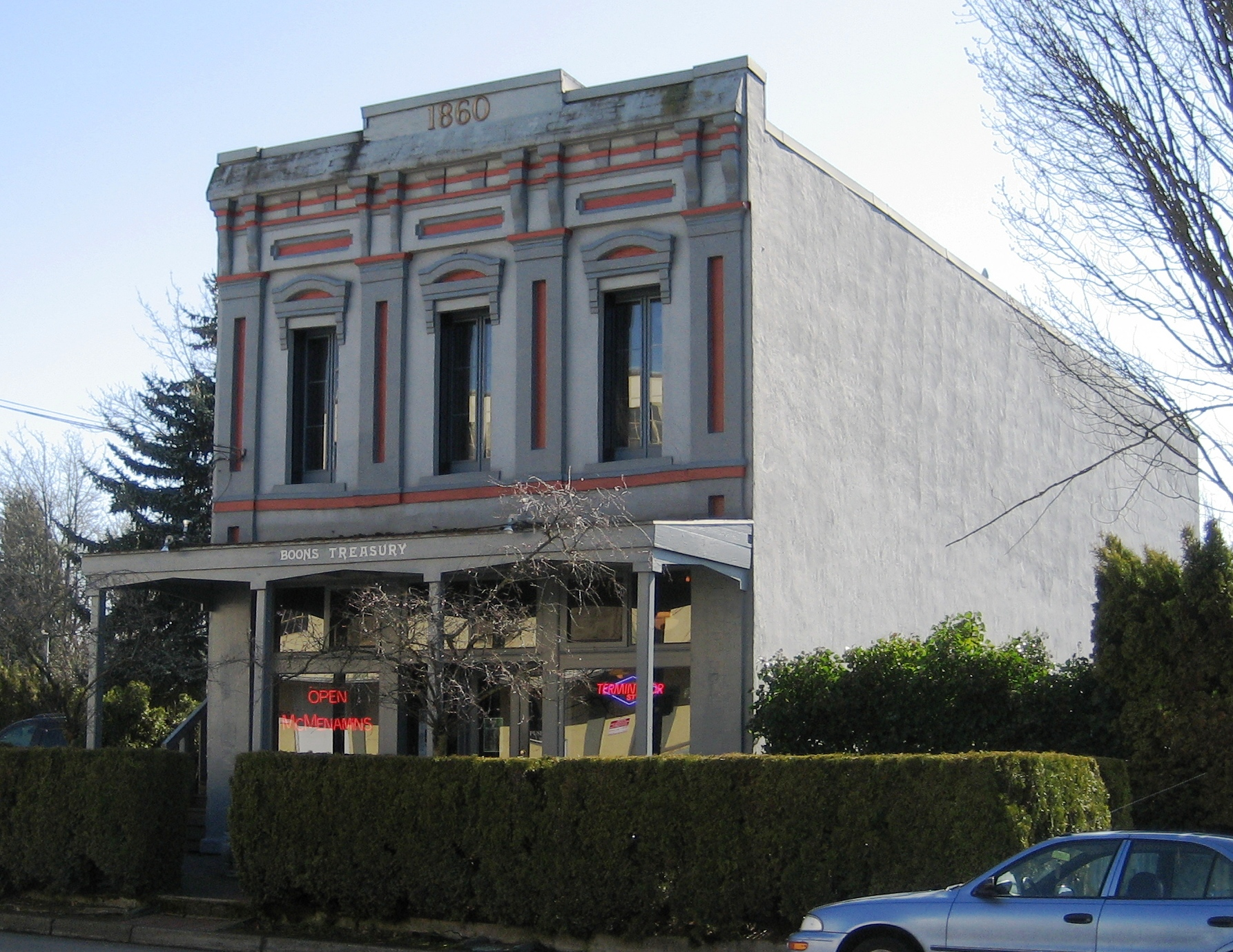 NRHP Boon Brick Store in Salem, Oregon, USA. Operated as Boon's Treasury. see John D. Boon.